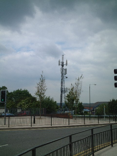 From the Sun Inn, Eastwood, Notts. The phone mast dominates the view from the Sun Inn to the detriment of the immediate area. Makes the supermarket appear elegant by default.